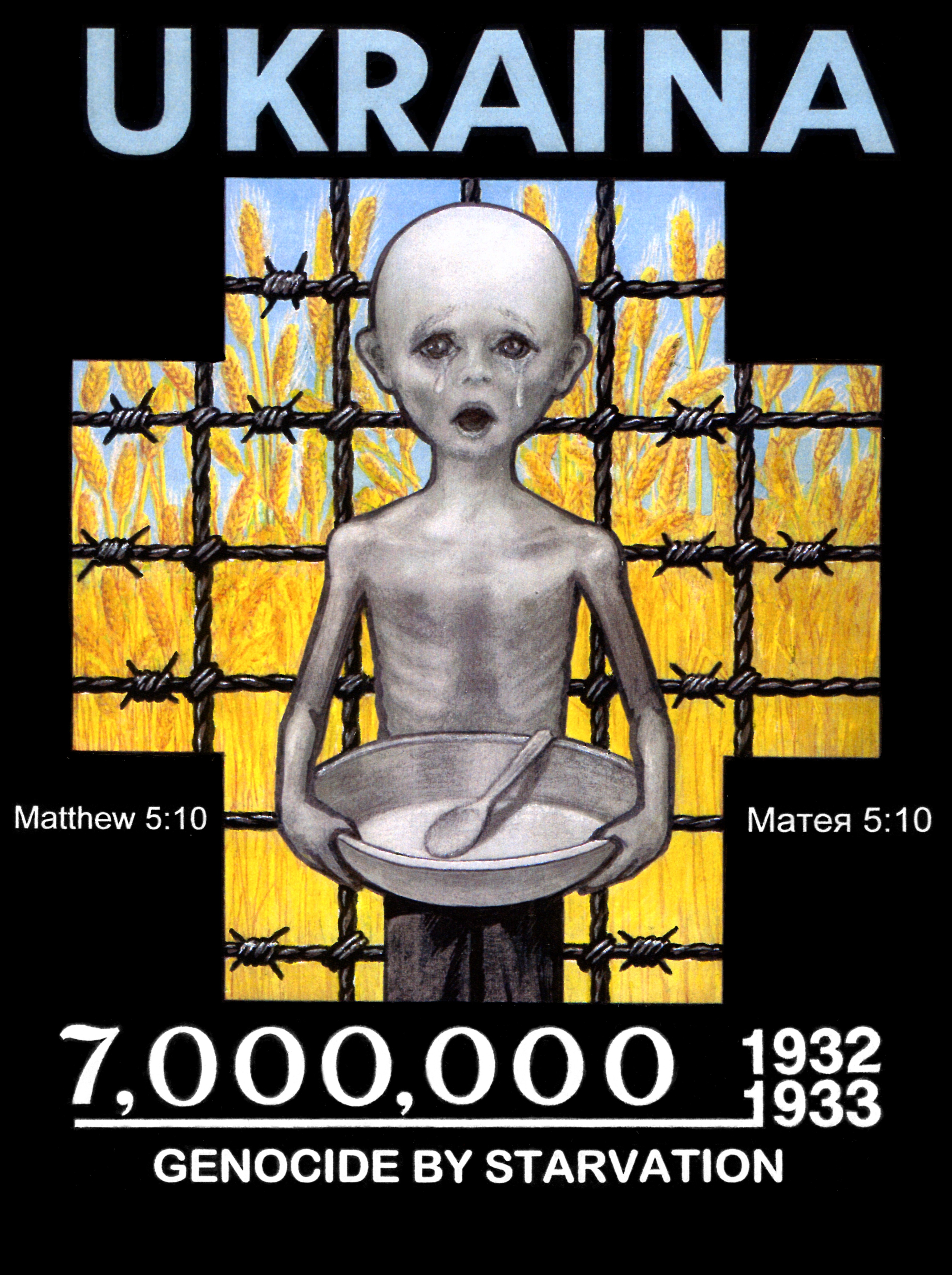 Leonid Denysenko "Why!?" 550mm x 400 mm, Graphic art on paper, black ink & gouache. 2008. This is a poster commemorating the Ukrainian Holodomor - Genocide of the 1930s.